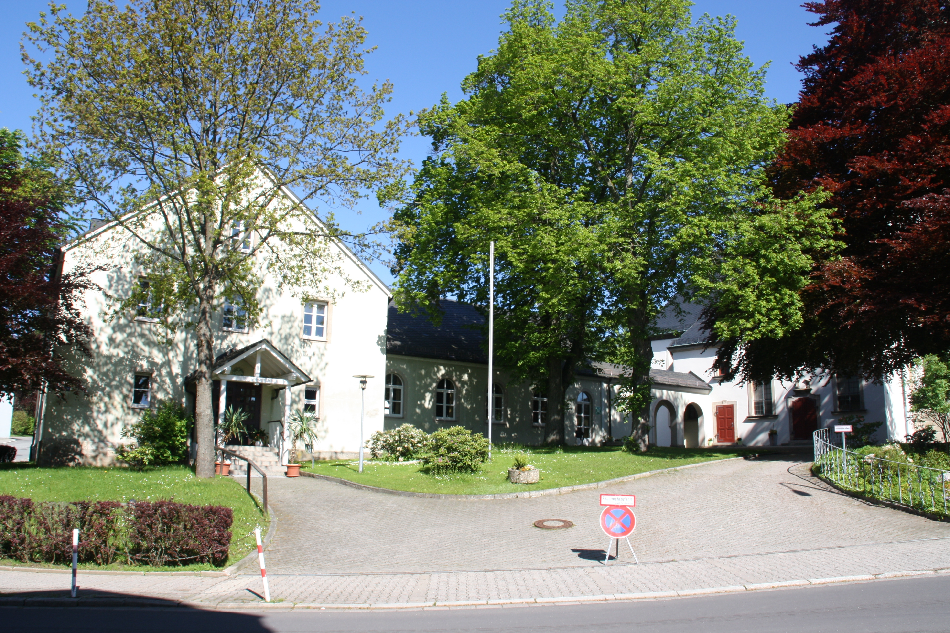 Church square of Schönwald: Parish hall and Evangelical parish church